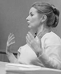 Helga Schütz am 02. 12. 1993 im LCB